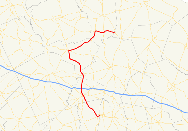 Map of Georgia State Route 78